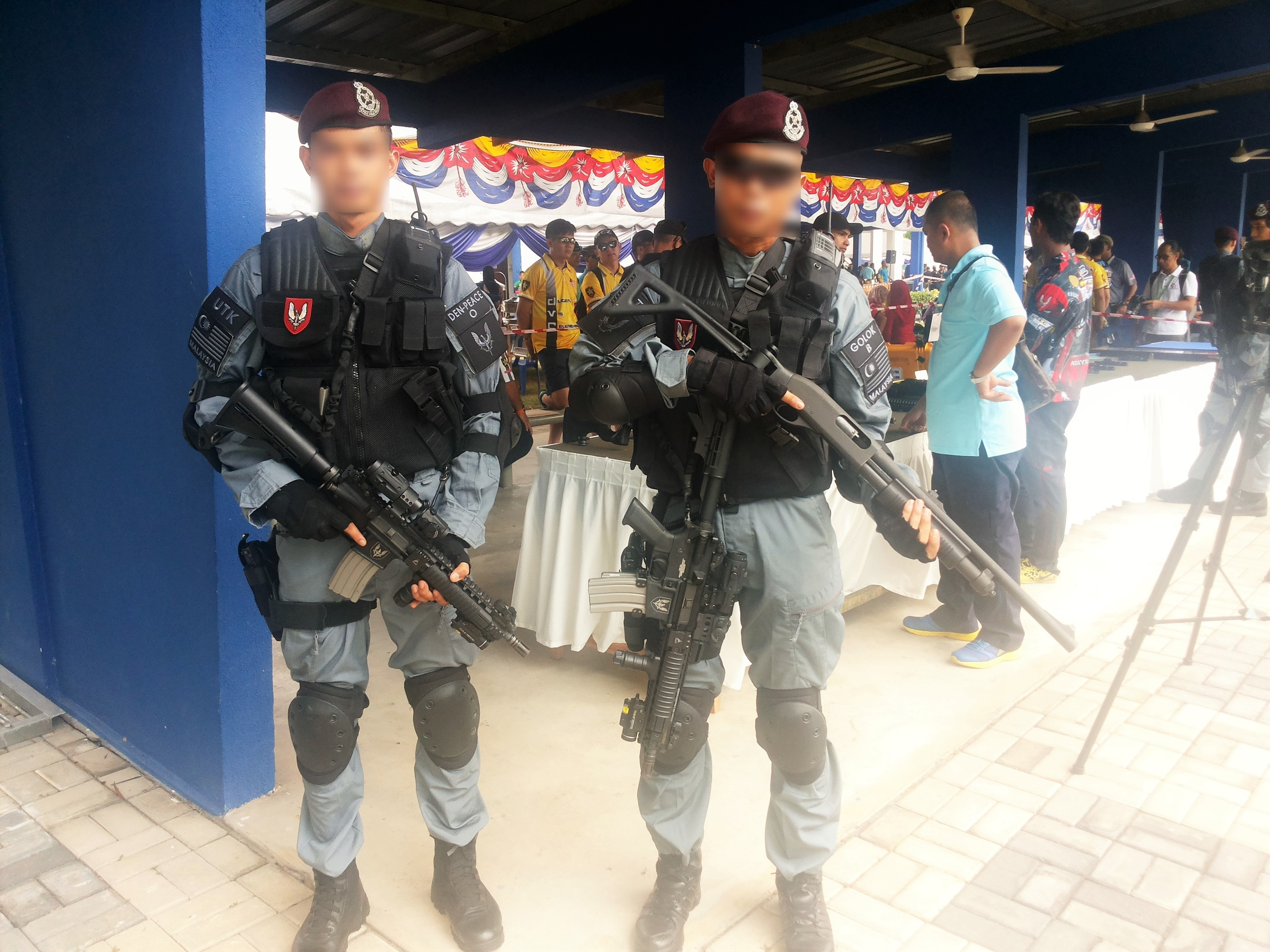 Officers from the Special Actions Unit, Royal Malaysia Police, with new Battle Dress Uniforms on standby at the Centre Brigade of General Operations Force Base, Cheras, Kuala Lumpur. They are armed with an American-made FERFRANS SOAR compact carbines and the Remington M870 Police Magnum.